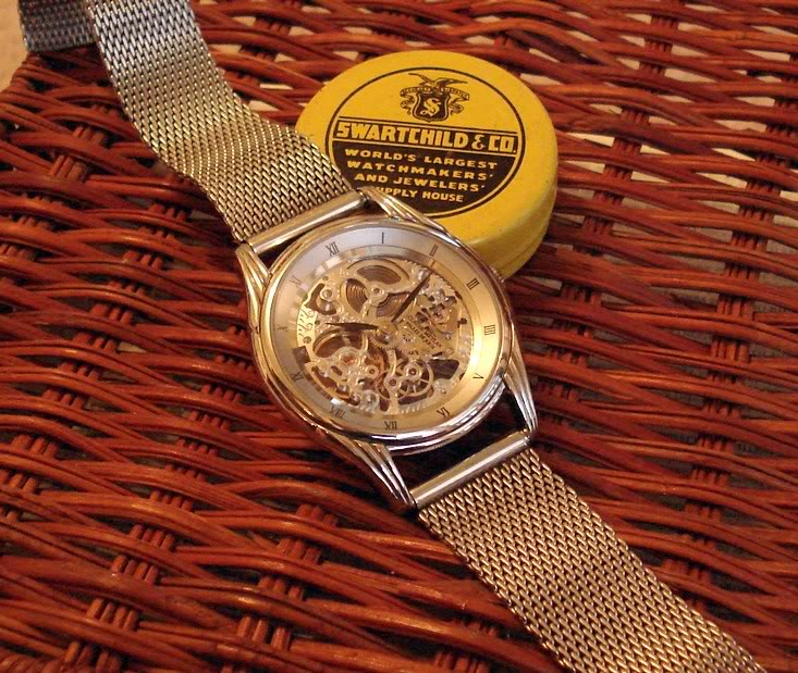 Claude Meylan Skeleton Watch manual wind on mesh band.